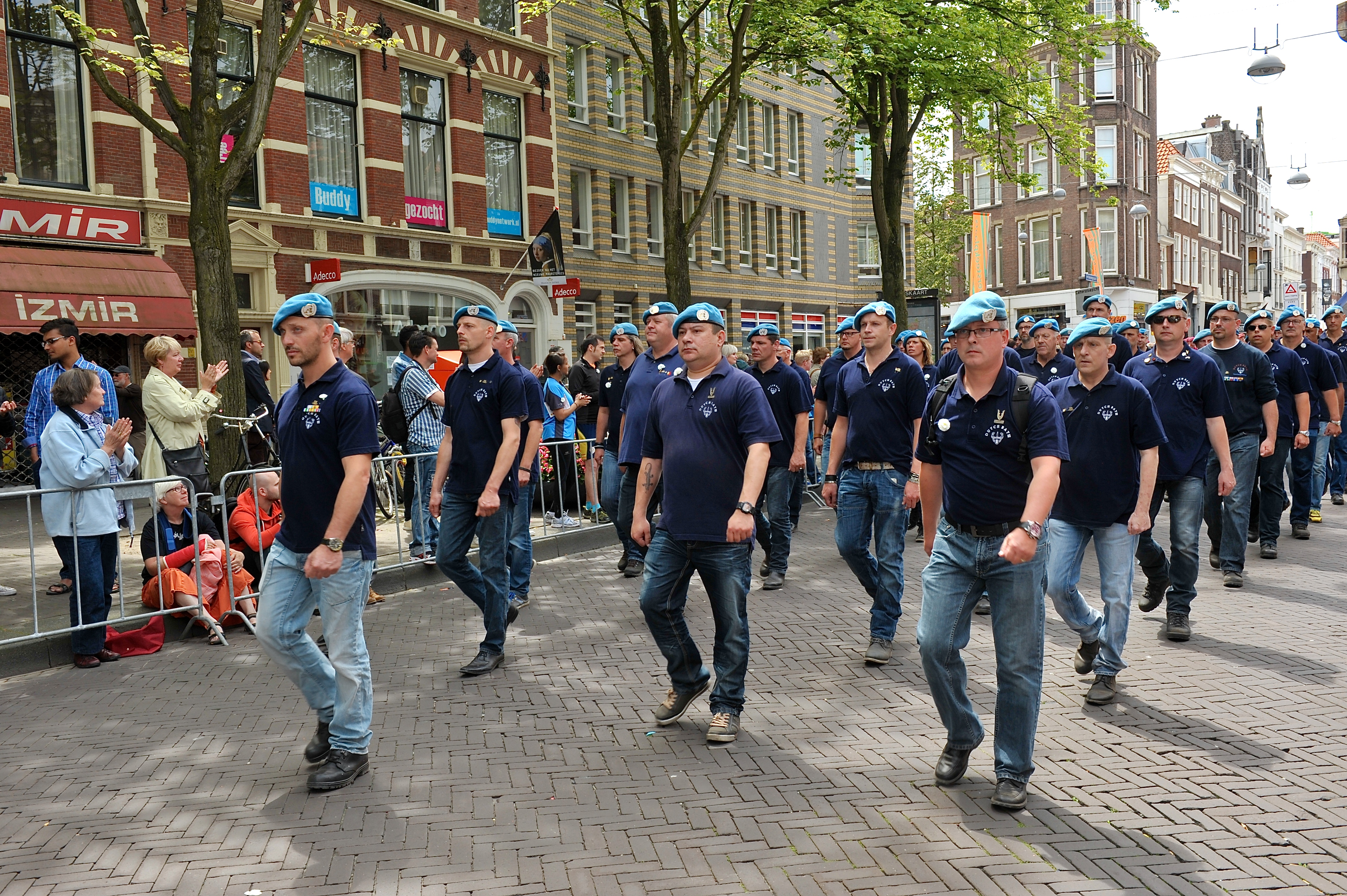 Unifill Dutchbat III